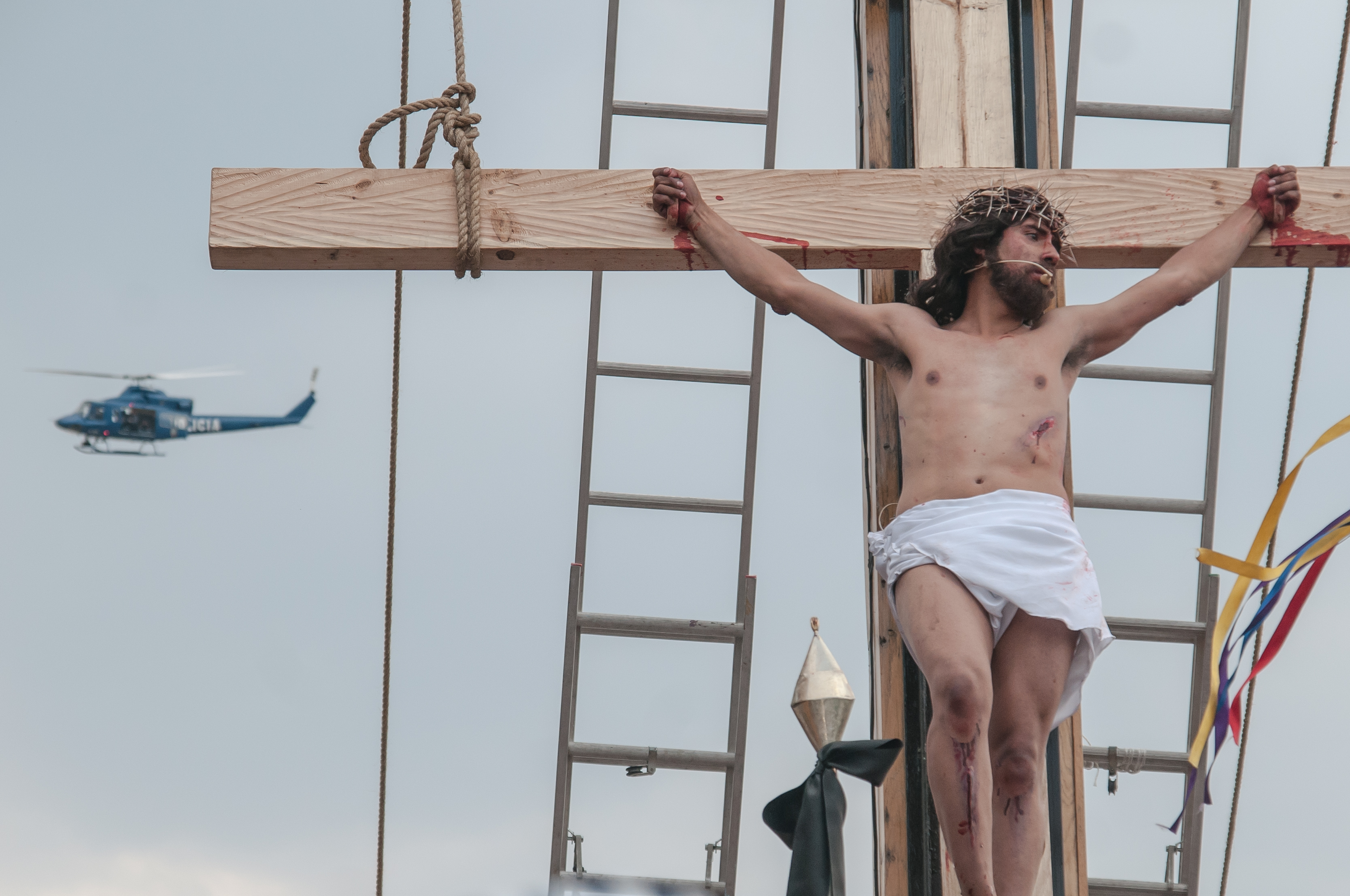 Lee la crónica completa en Revolución TresPuntoCero: Las ocho de la mañana marcaron el inicio del recorrido del viernes santo, esa caminata en la que miles de feligreses se reúnen para ver pasar la representación del pasaje bíblico que más impacto e importancia tiene para los colonos iztapalapenses: “la pasión de Cristo”. Luis, un joven de 17 años camina con quienes representan a los romanos (todos de la misma edad), al parecer, la mayoría de los participantes de esta procesión son jóvenes. “Estoy aquí porque le prometí una manda al señor de la cuevita, él me ayudó con unos problemas y por eso estoy aquí”, señaló Luis que comenzaba su peregrinar. (Crónica por Enrique Legorreta)